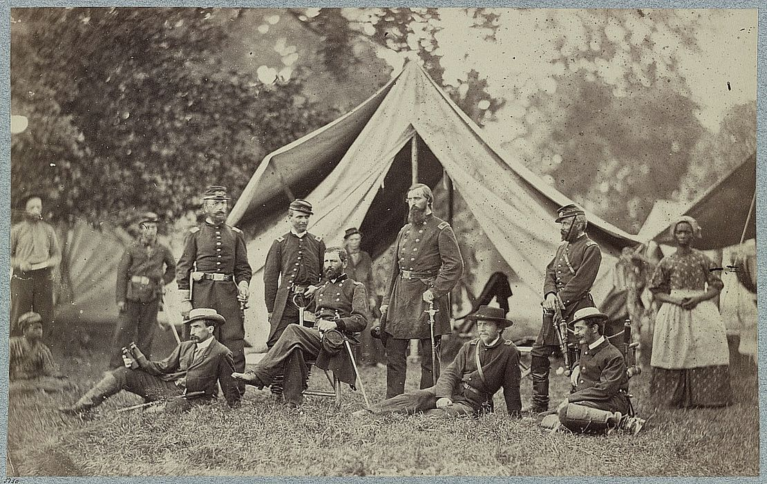 Photograph of General Fitz John Porter and his staff photographed between 1861 and 1865